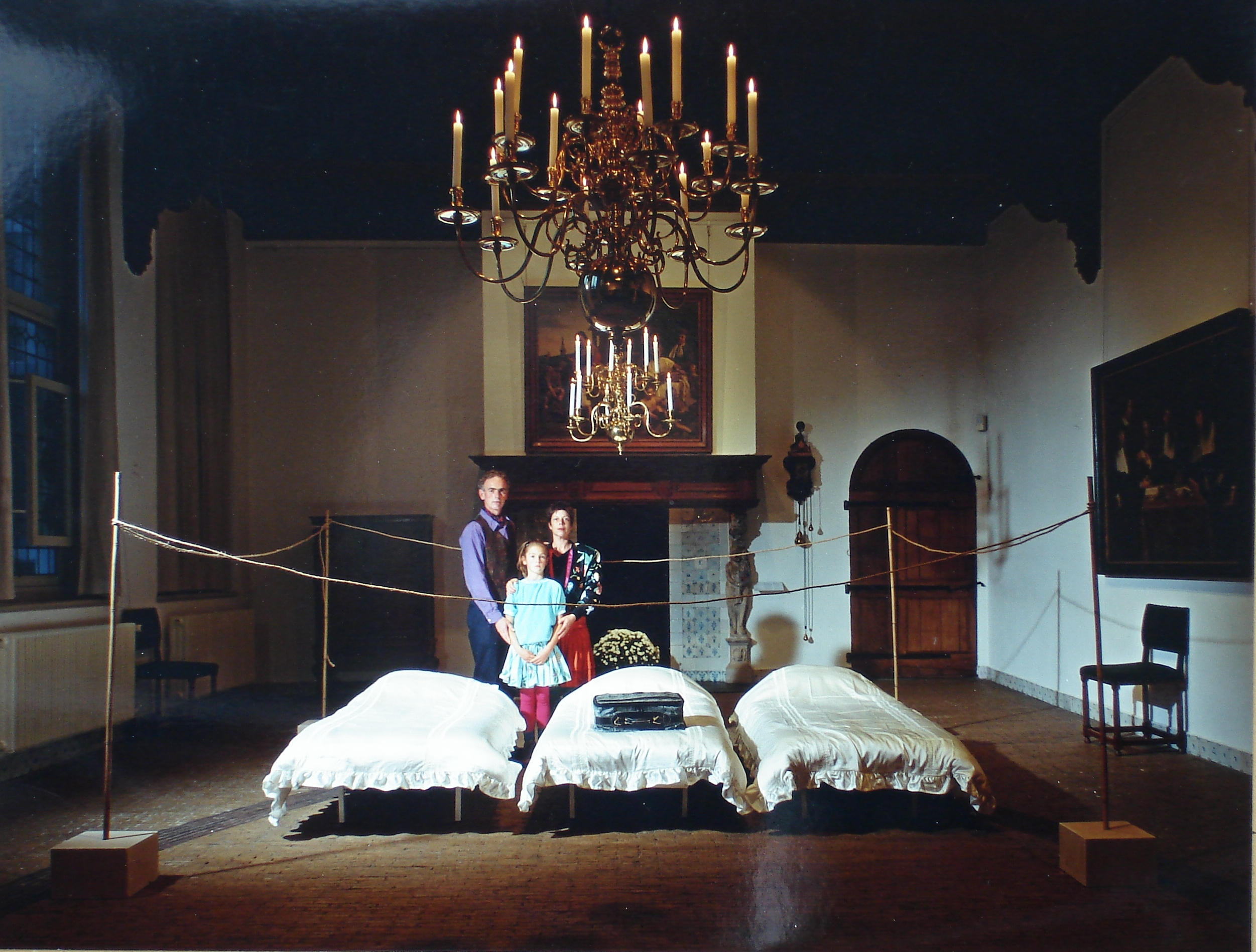 Frans Hals Museum 1988. The Renaissance Hall, bedroom of MWC for their overnight stay during the STANDING STONE journey